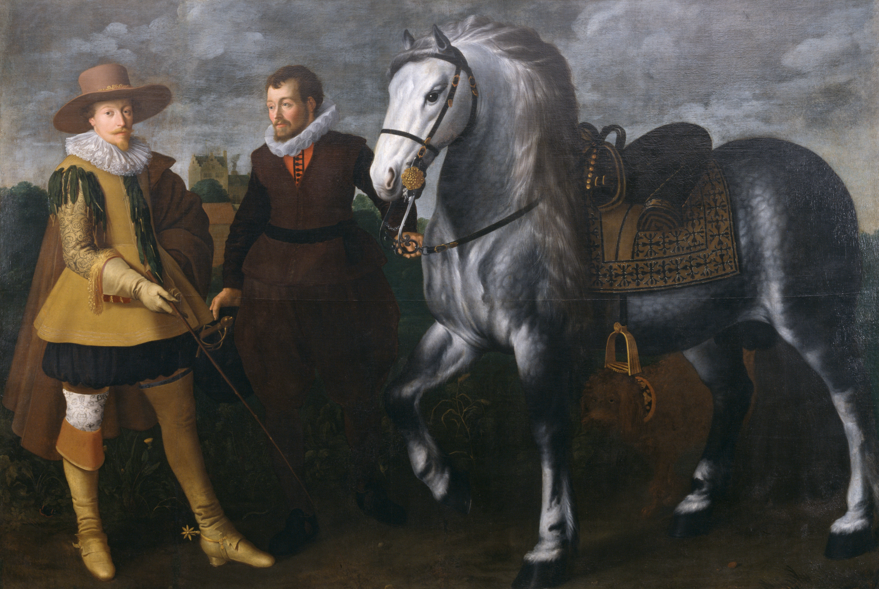 Maurits, prince of Orange (1567-1625) and "stadholder" of the United Provinces, was very successful as the commander of the republic's military forces. The war with Spain dragged on for two decades after his death, but the course he established was decisive in ultimately achieving independence. Maurits is depicted in a field in a kind of "double portrait" with an immense dapple-gray war horse that he is training. He was famous as a breeder of horses for battle and is often shown with this horse. It may be the offspring of a prize dapple-gray Spanish war horse (a breed famous since antiquity), captured by Maurits's forces from the Spanish Habsburg commander Archduke Albert, bred with a heavier northern European war horse.